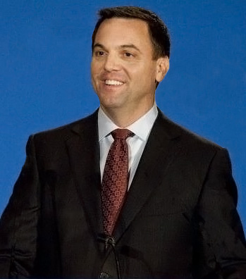 Tim Hudak.